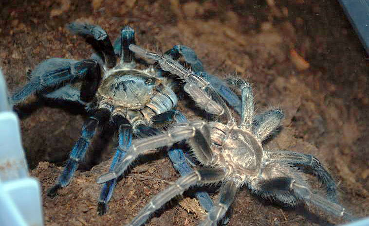 Copulation of Haplopelma lividum.